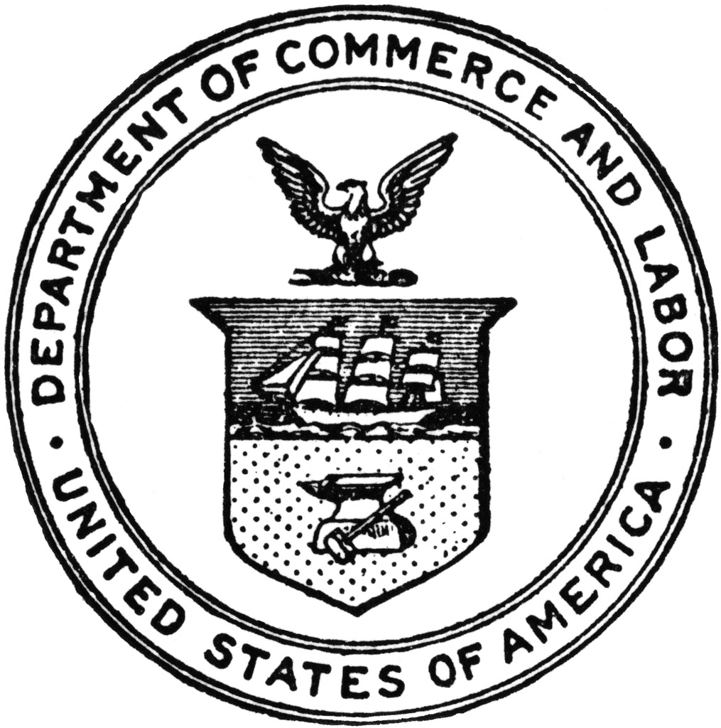 Seal of the former United States Department of Commerce and Labor